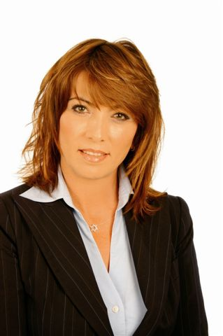 Ruhama Avraham Balila (Hebrew: רוחמה אברהם בלילא, born 29 January 1964) is an Israeli politician. A member of the Knesset for Kadima, the Israeli Minister of Tourism. She has also served as a Minister without Portfolio responsible for liaison with the Knesset